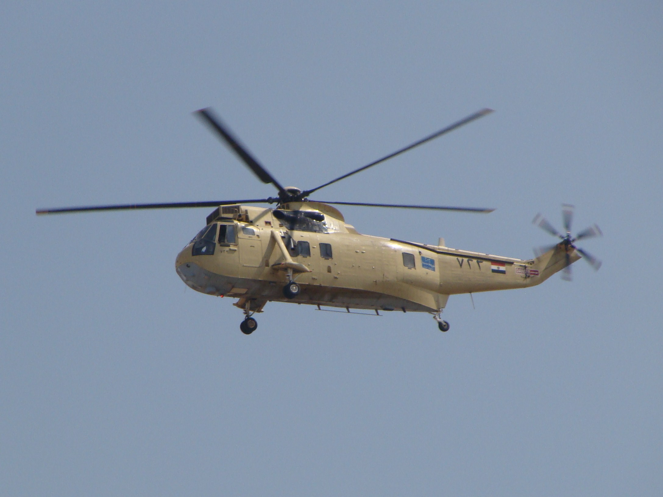 Egyptian Air Force Westland Sea King